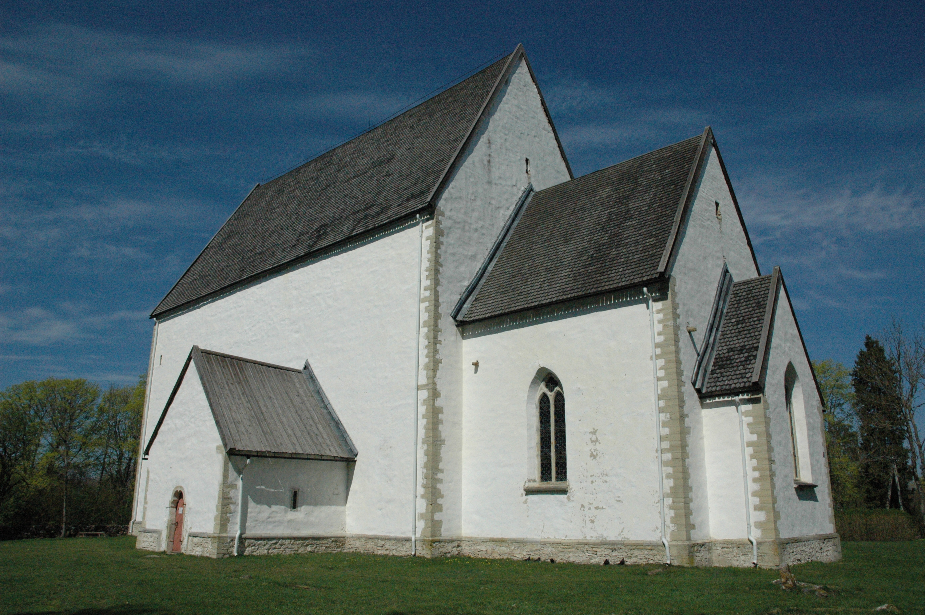 St. Catharine's Church of Muhu